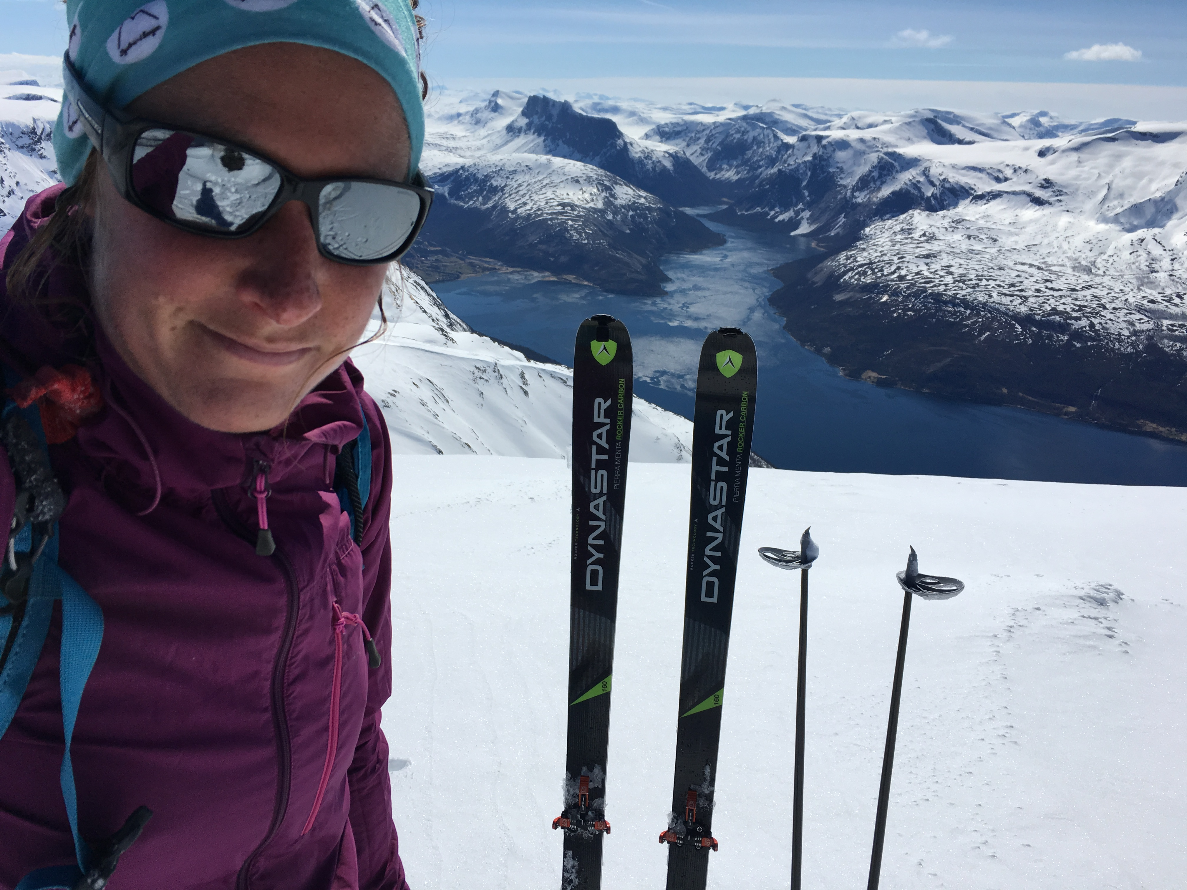 JennyRåghall